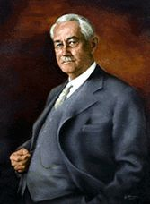 Official governor's portrait.